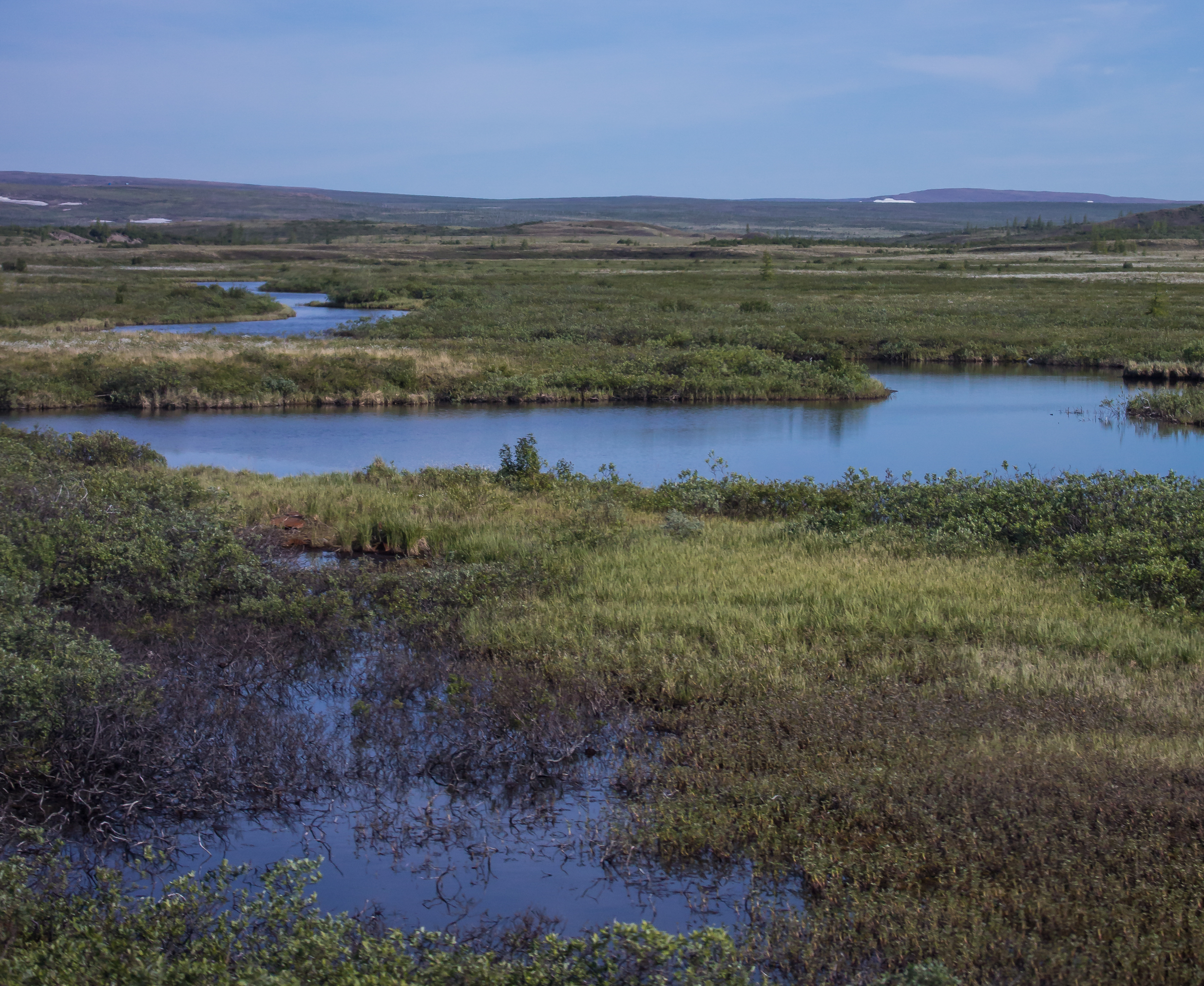 Siberian Tundra on the Taymyr Peninsula, Russia